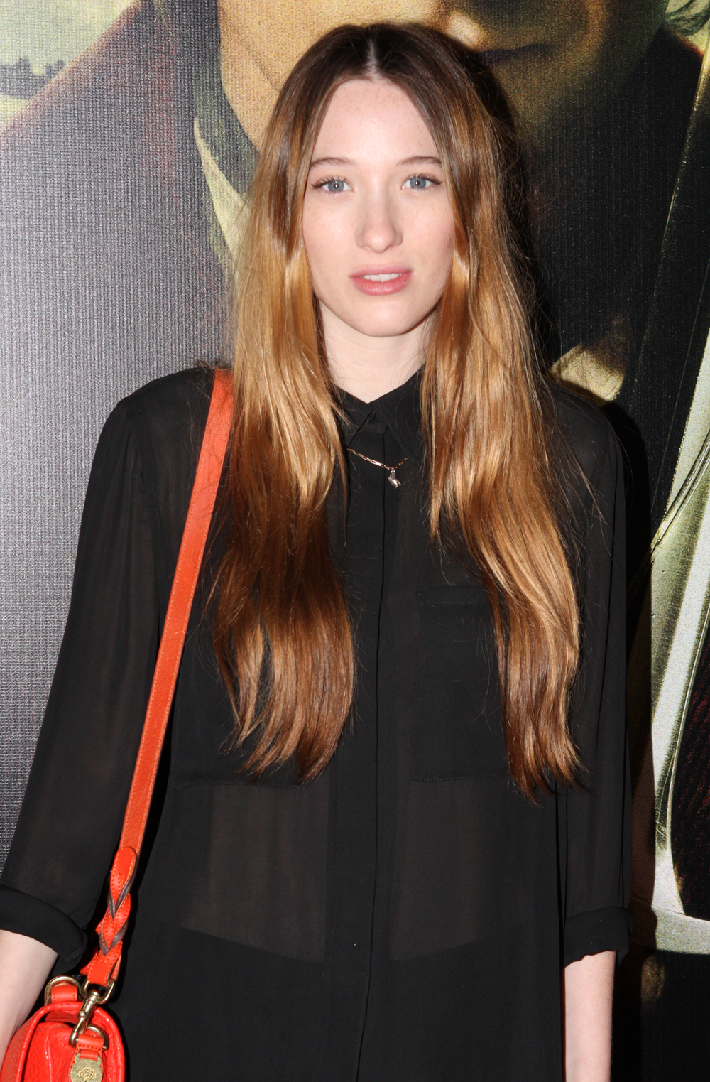 The Hobbit: An Unexpected Journey movie premiere: Sydney, Australia.